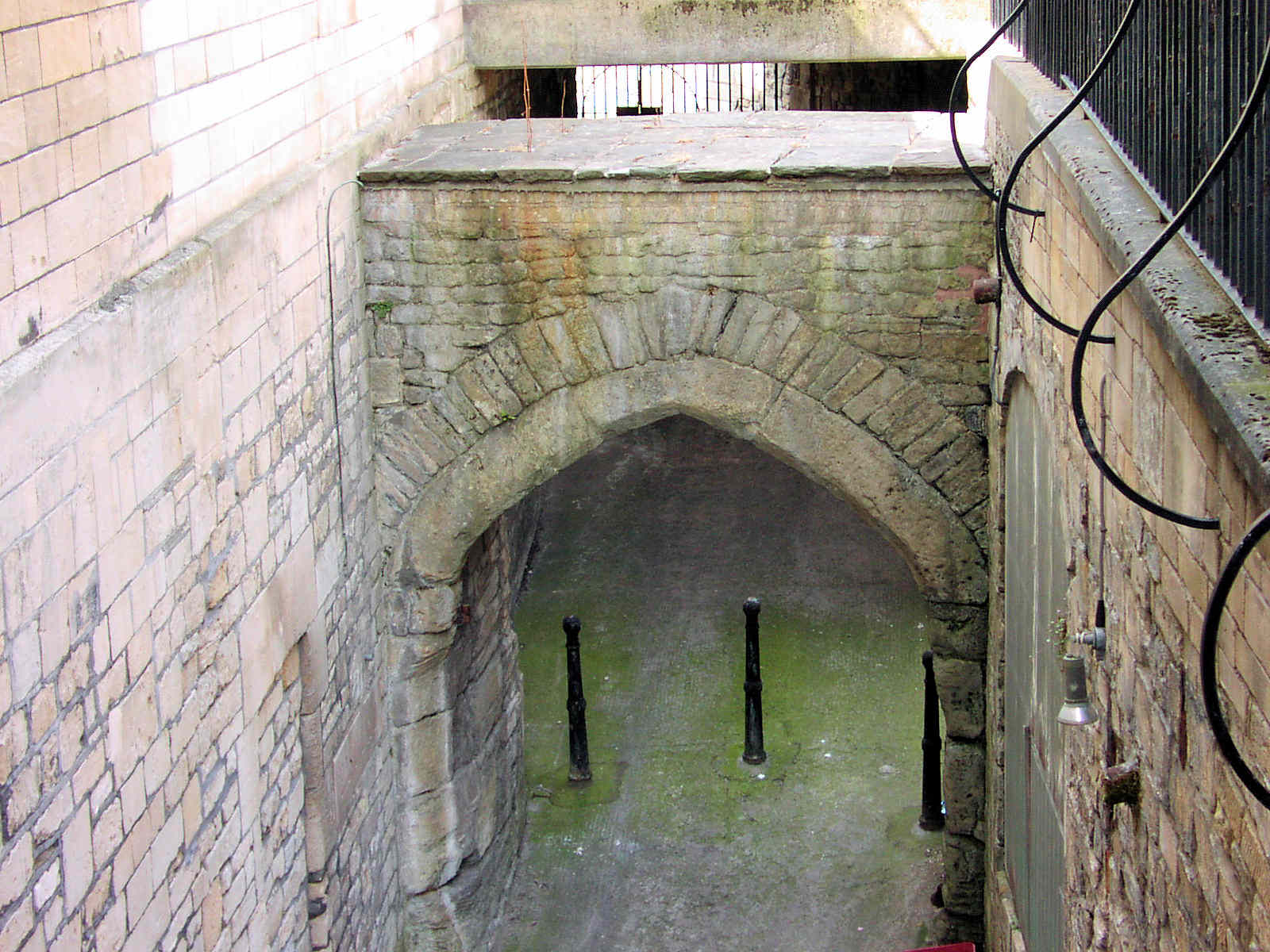 The East Gate into Bath Situated behind what is known as the Empire Hotel, now apartments. Notice how it has sunk, just like the Roman remains in Bath.